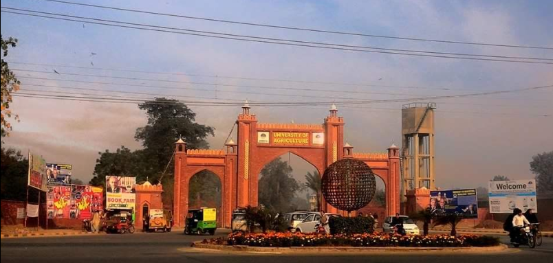 UAF main gate